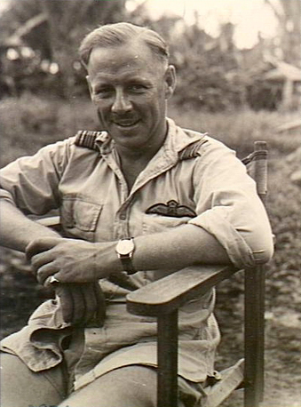 Morotai Island, Halmahera Islands, Netherlands East Indies. c. 1945. Portrait of Squadron Leader J. L. Waddy DFC of Rose Bay, NSW, the Commanding Officer of No. 80 (Kittyhawk) Squadron RAAF.